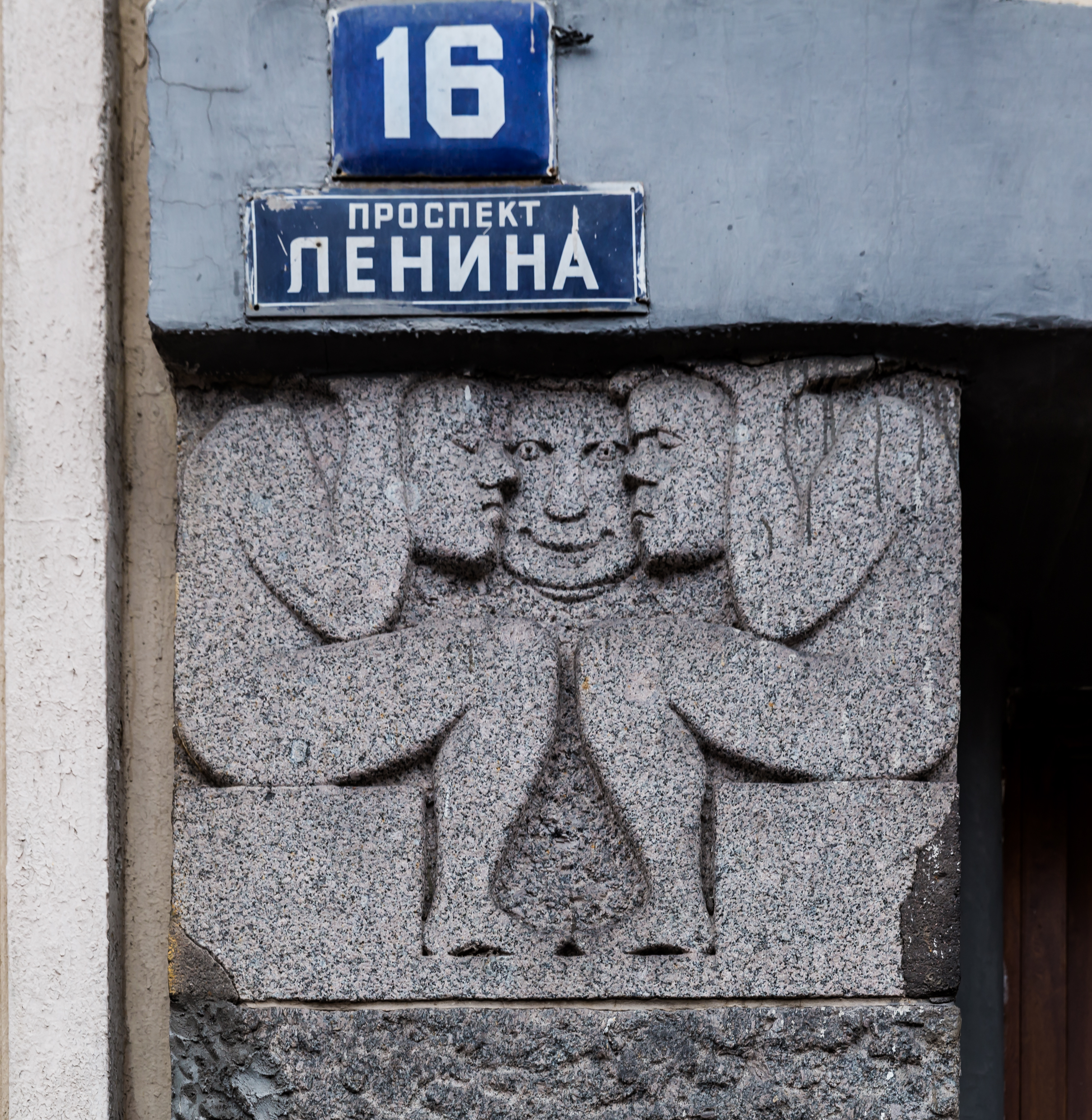 Vyborg, Finnish architecture, architect Paavo Uotila